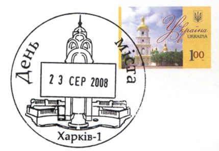 Special cancelation of the P.O. Ukraine, commemorating the day of city in Kharkiv on the Ukrainian postage stamp, 2003